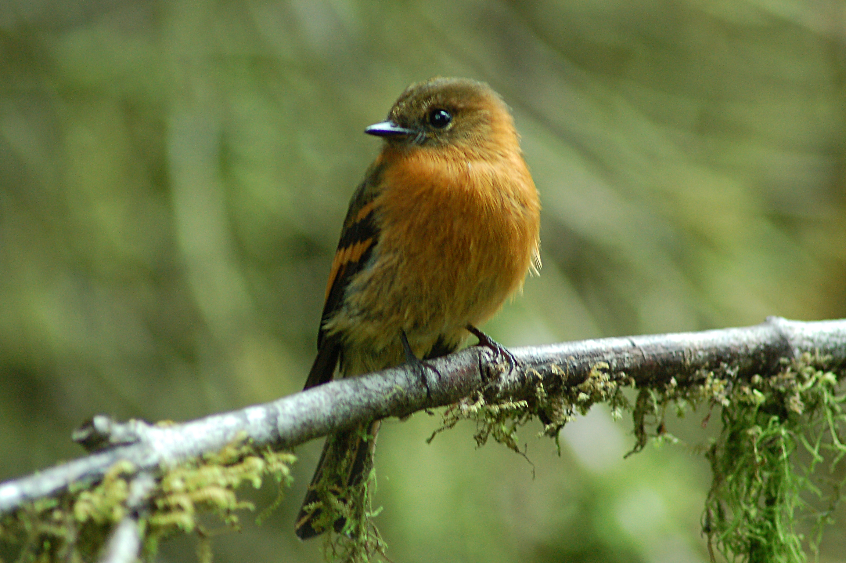 Cinnamon Flycatcher - 5 June 2015 - Bellavista Cloud Forest Lodge, Tandayapa, Pichincha Province, Ecuador